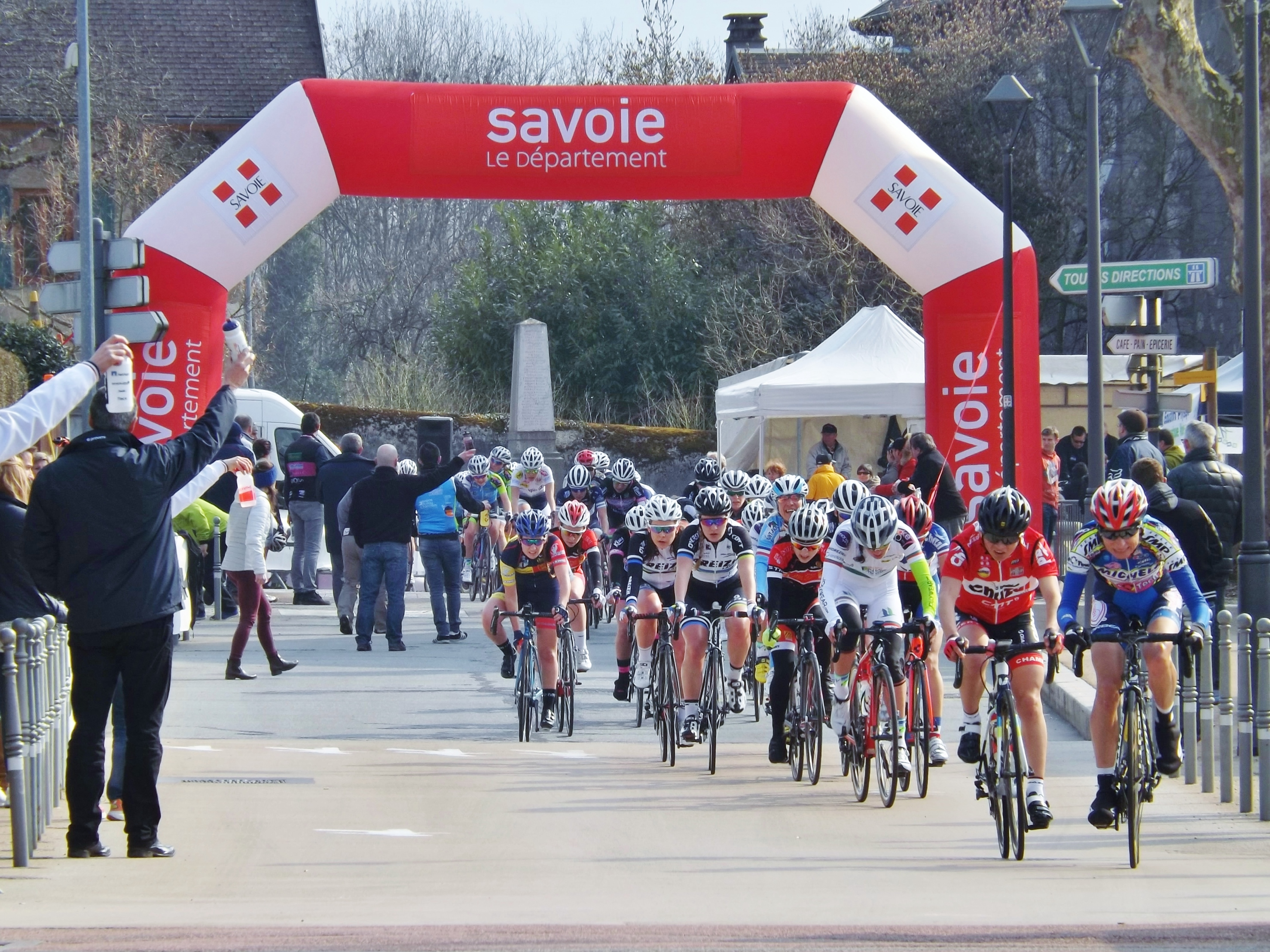 Sight of female cyclists riding at the 2016 Grand prix de Chambéry tour (first race of the French Cup), here in Chambéry-le-Vieux hamlet center, in Savoie, France.